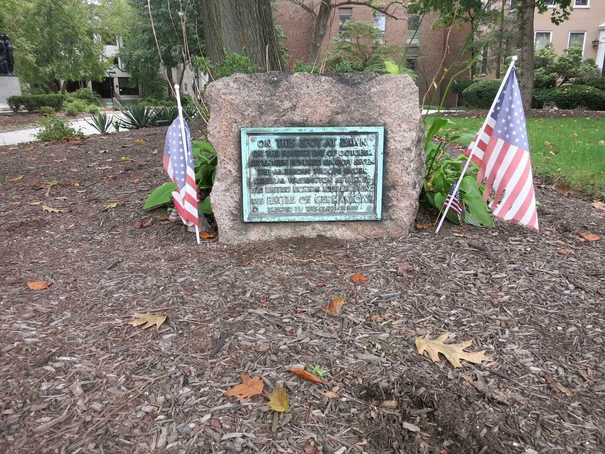 Photo shows an historical marker in front of the Lutheran Theological Seminary at 7301 Germantown Ave, Philadelphia, PA 19119. The marker reads, "On this spot at dawn on the fourth day of October Seventeen Hundred Seventy Seven the American troops under General Washington attacked the British troops thus beginning the Battle of Germantown. Erected by the class of 1919." View is toward the northeast.